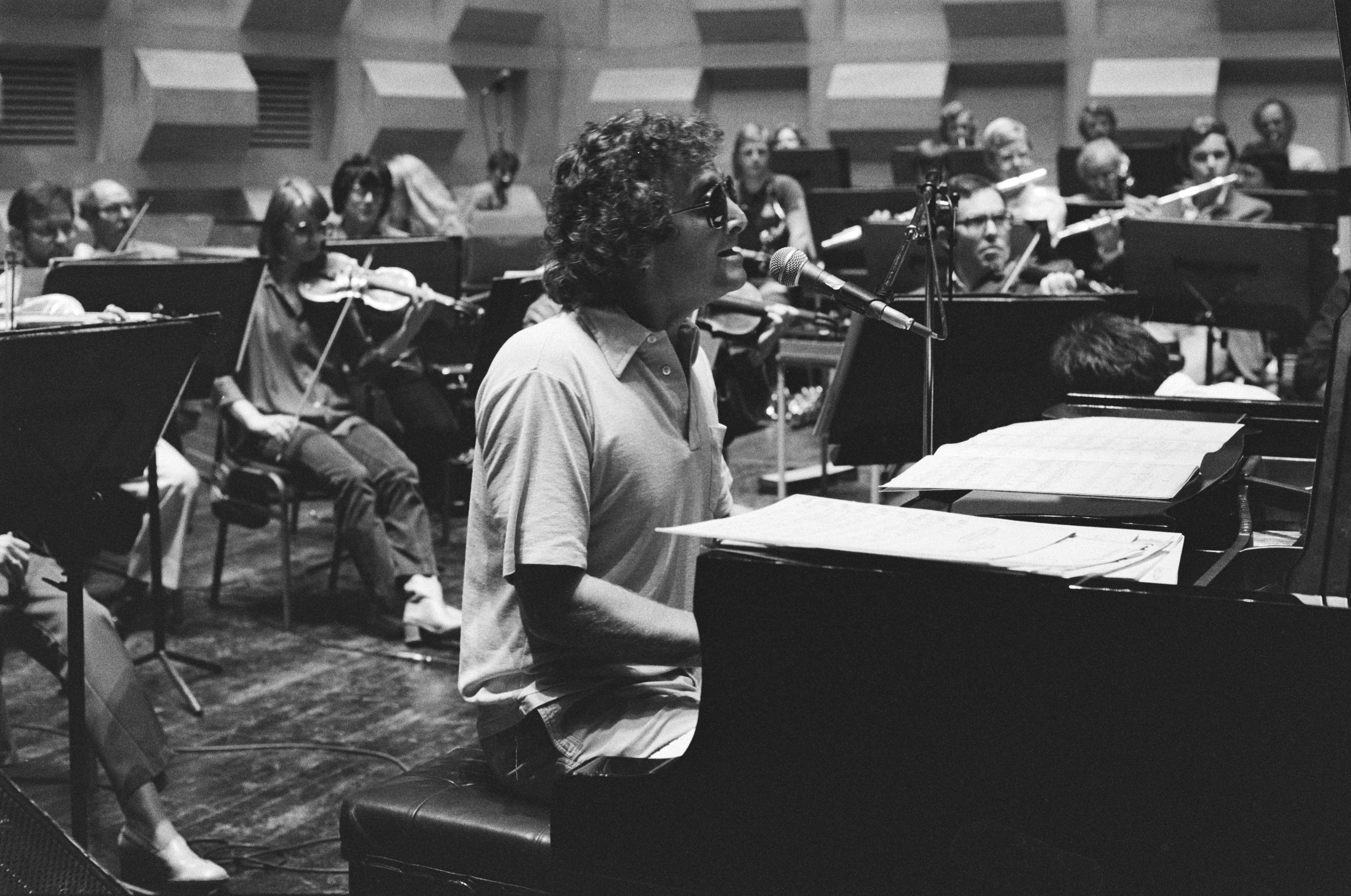 Rehearsal Randy Newman and Rotterdam Philharmonic Orchestra, 23 August 1979